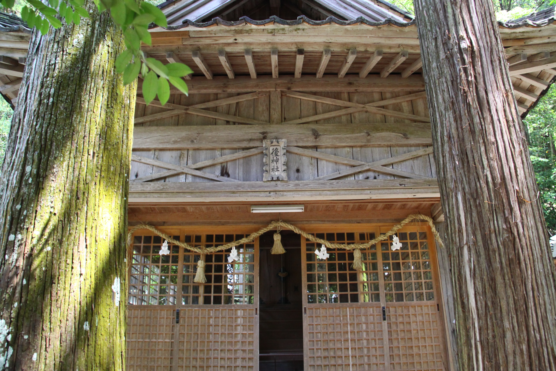 Ushiro jinja